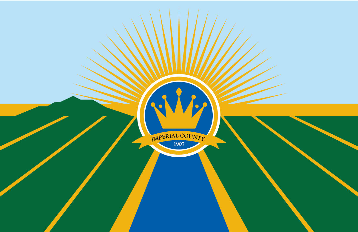 Flag of Imperial County, California